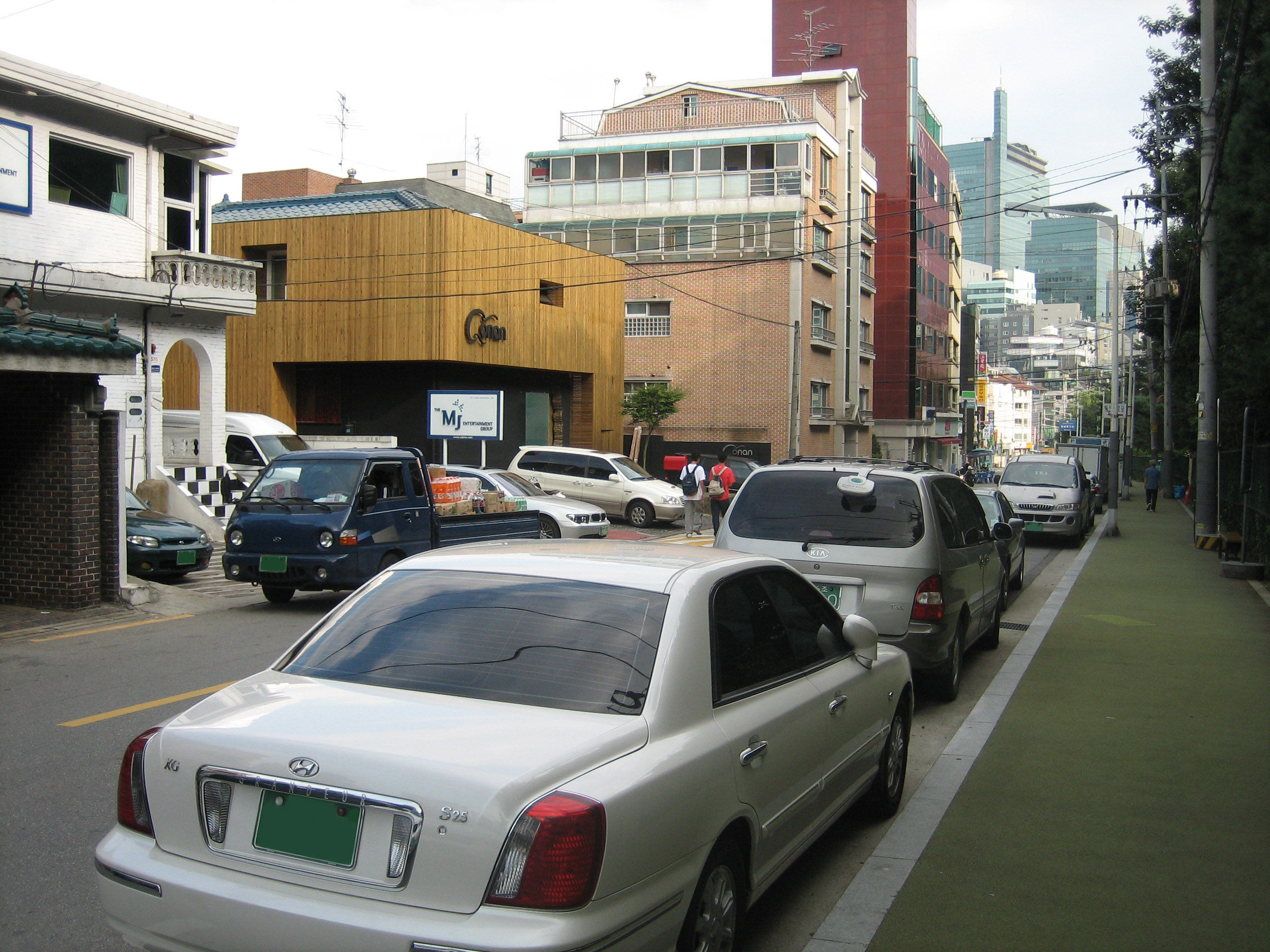 History, life, money. This is a picture taken by myself with a Canon Ixus50, at Seoul (South Korea). On the right is Samneung Park (2 legendary kings tombs lies there). On the left is a medium-class part of the city, in the far field is a business buildings part. The sidewalk is soft and made for runner.